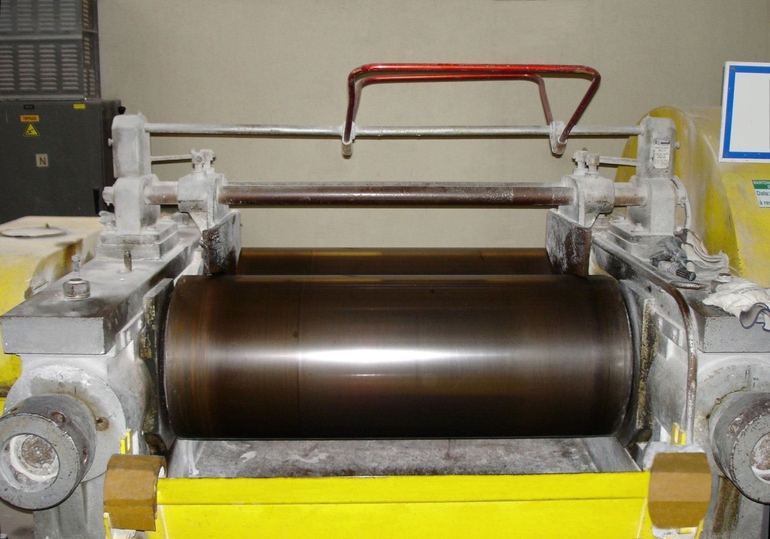 Calender machine. Input: one bale of synthetic rubber. Output: at the end of the process, after several cycles, the material thickness decreases from 20 cm to 2 cm (approximately). The resulting sheet will be used in a composition (sealant batch production using a Z-blade kneader).